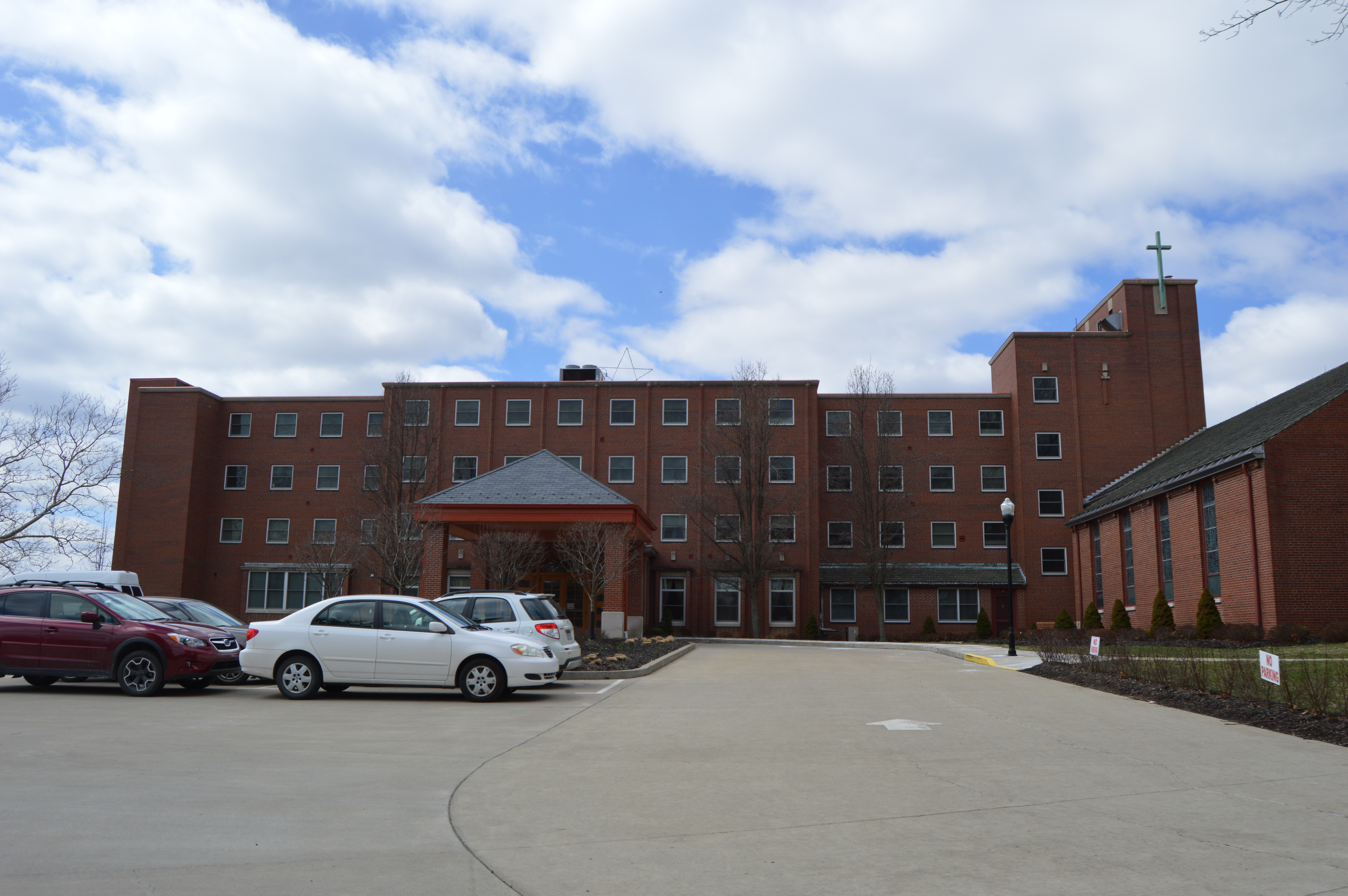 Main section of the Mount Saint Joseph complex, located off Pogue Run Road northeast of Wheeling in Ohio County, West Virginia, United States. The complex is listed on the National Register of Historic Places.